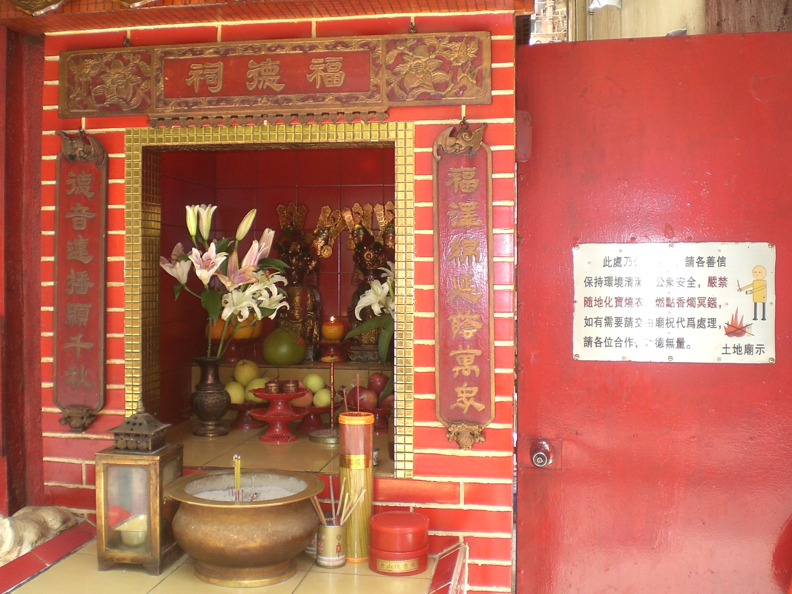 石塘咀zh:南里福德宮